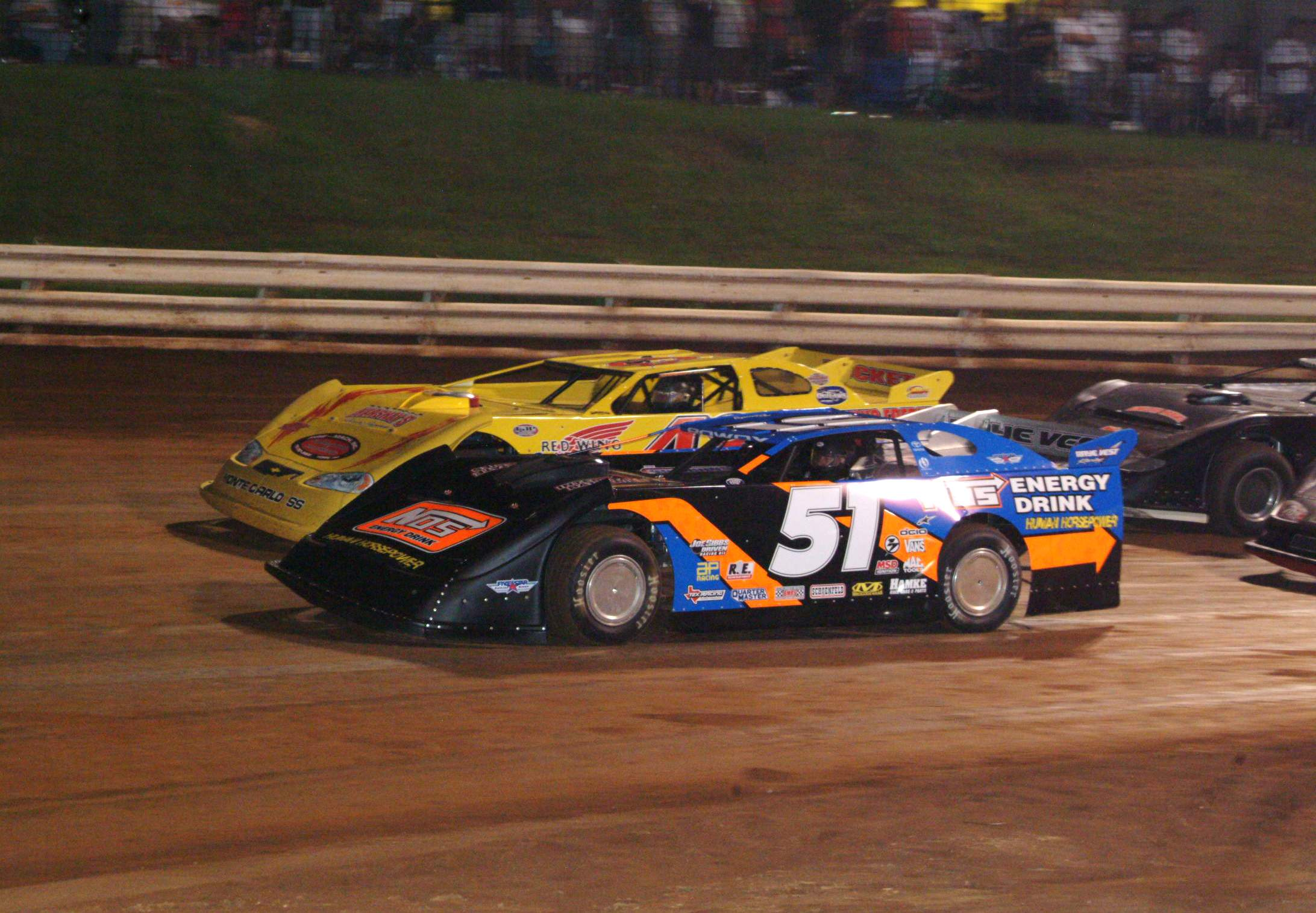 Kyle Busch races his dirt late model in the 2009 "Battle at the Grove" charity race at Williams Grove Speedway in Pennsylvania.